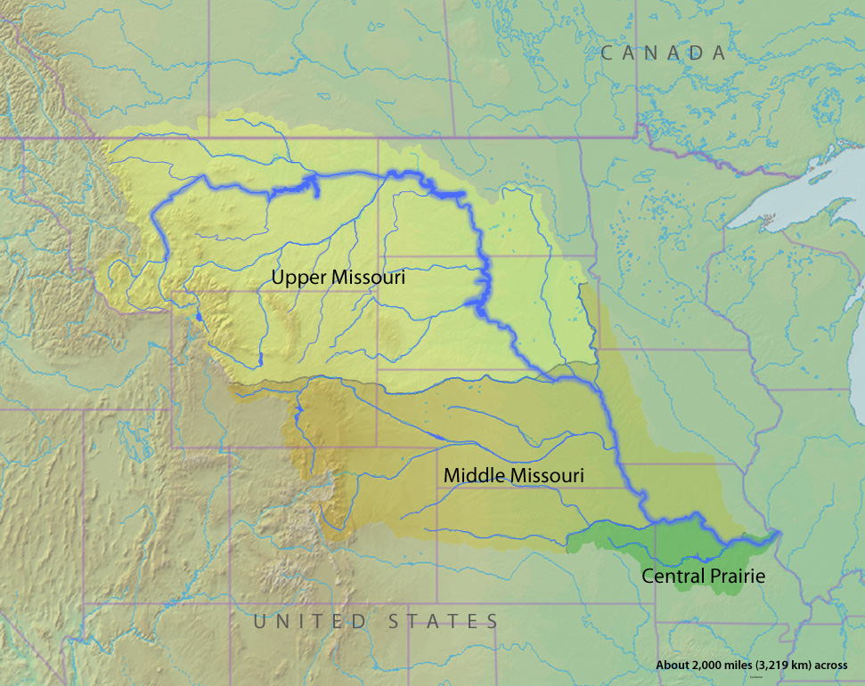 Map of the Missouri River watershed. Showing ecoregions from FEOW (Freshwater Ecoregions of the World), World Wildlife Fund, Nature Conservancy.